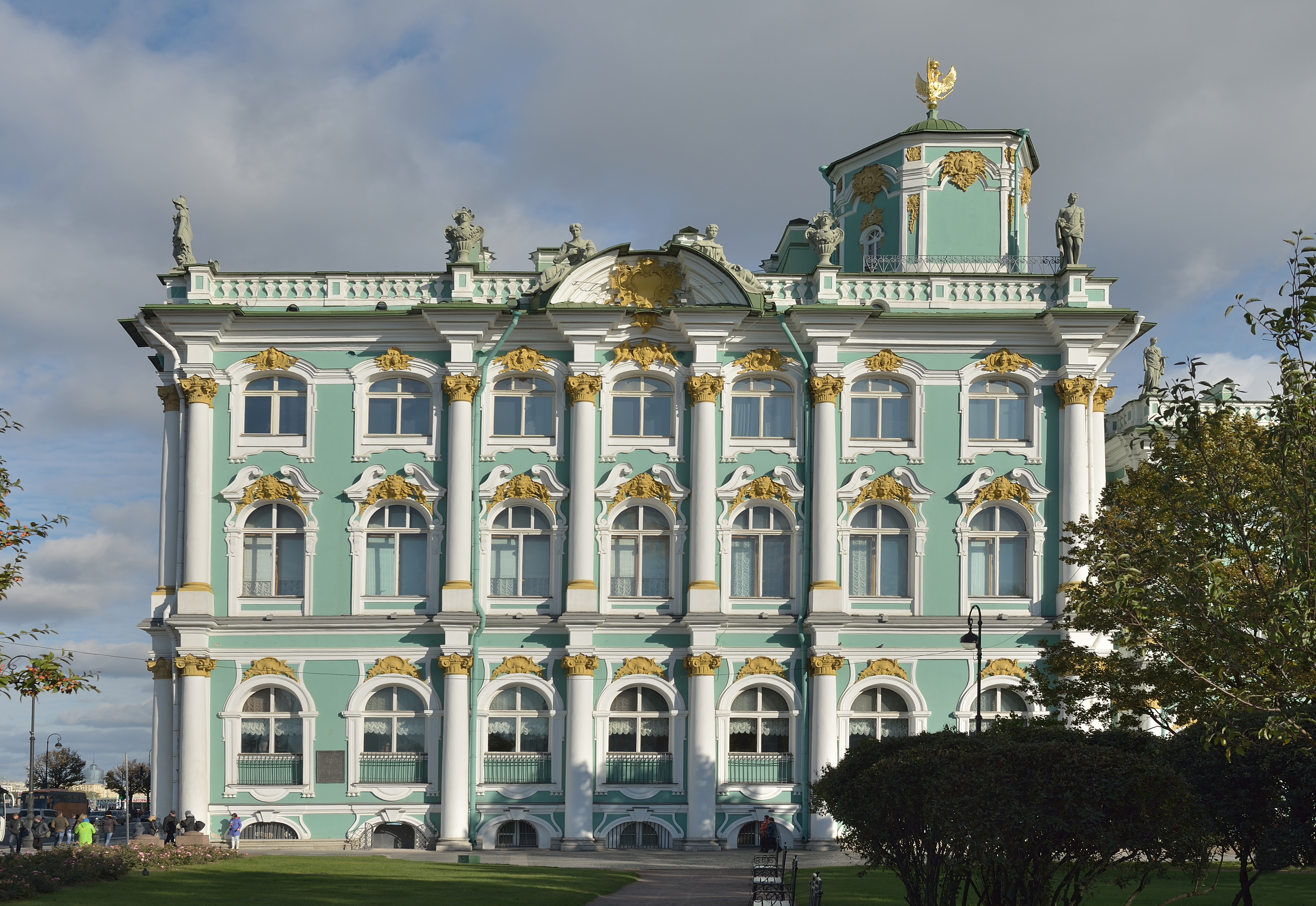 West facade of the Hermitage Museum in Saint Petersburg.